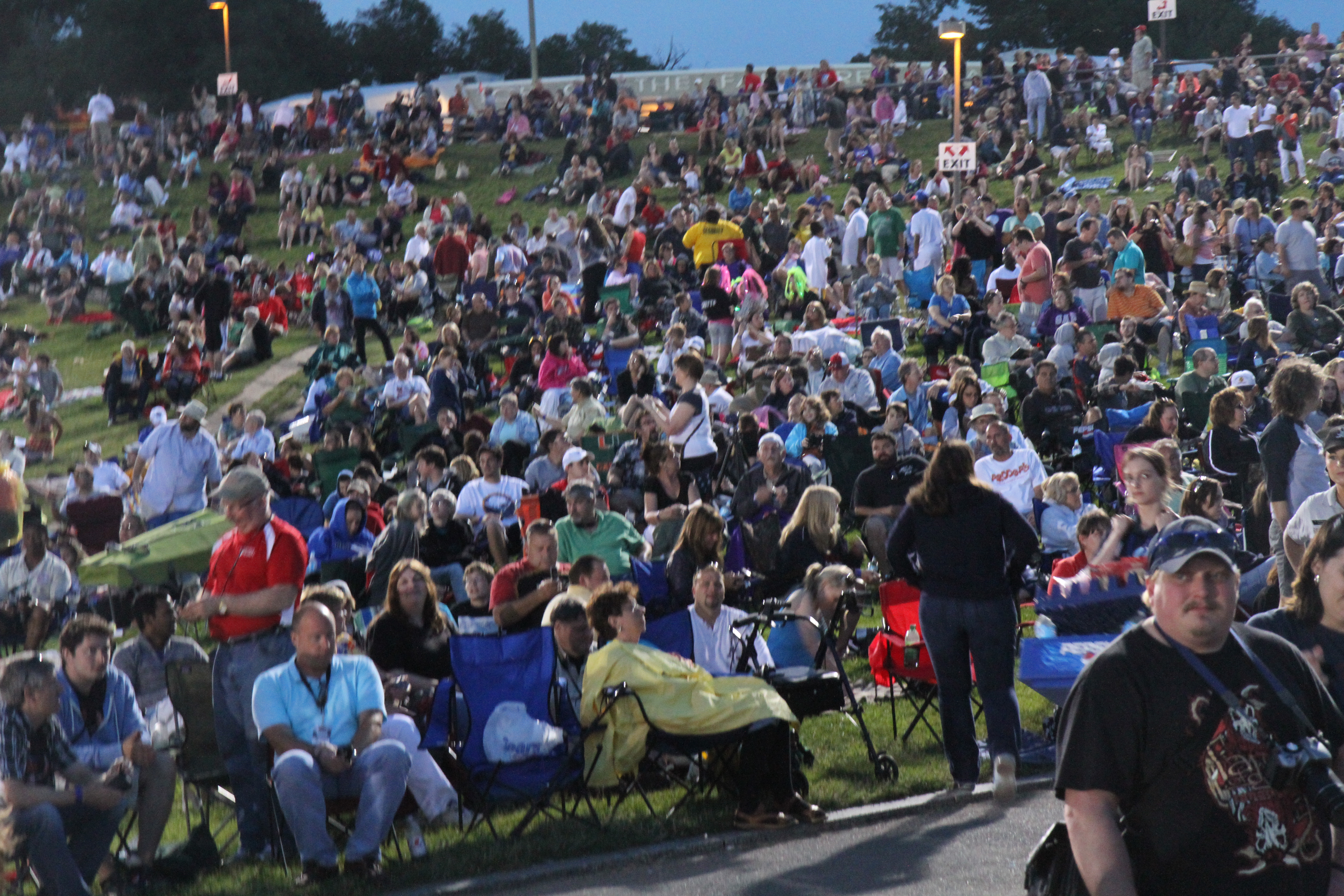 Shot of the crowd (American side) gathered to watch Nik Wallenda June 12, 2012